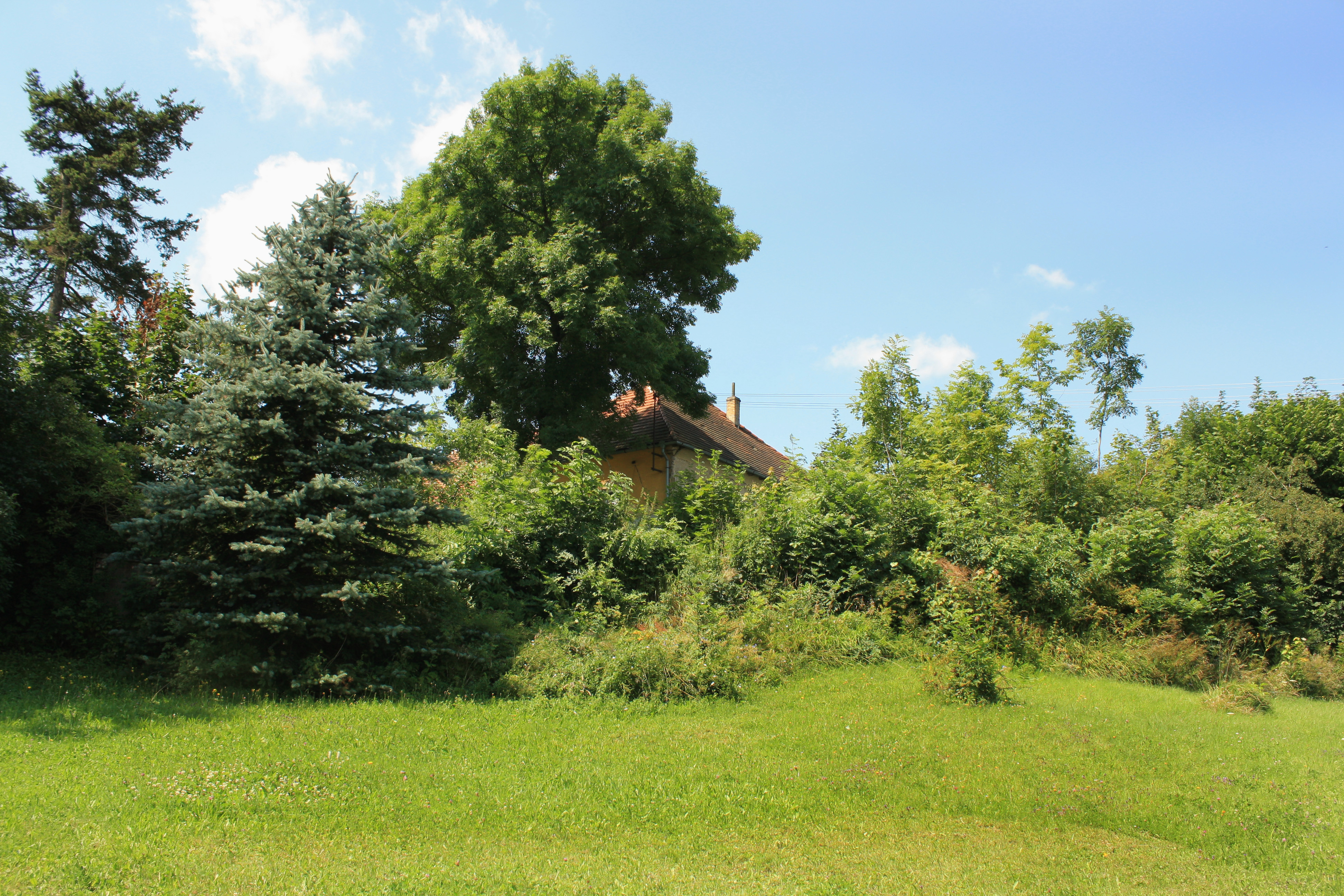 Protected bulwark in Strašice, Czech Republic